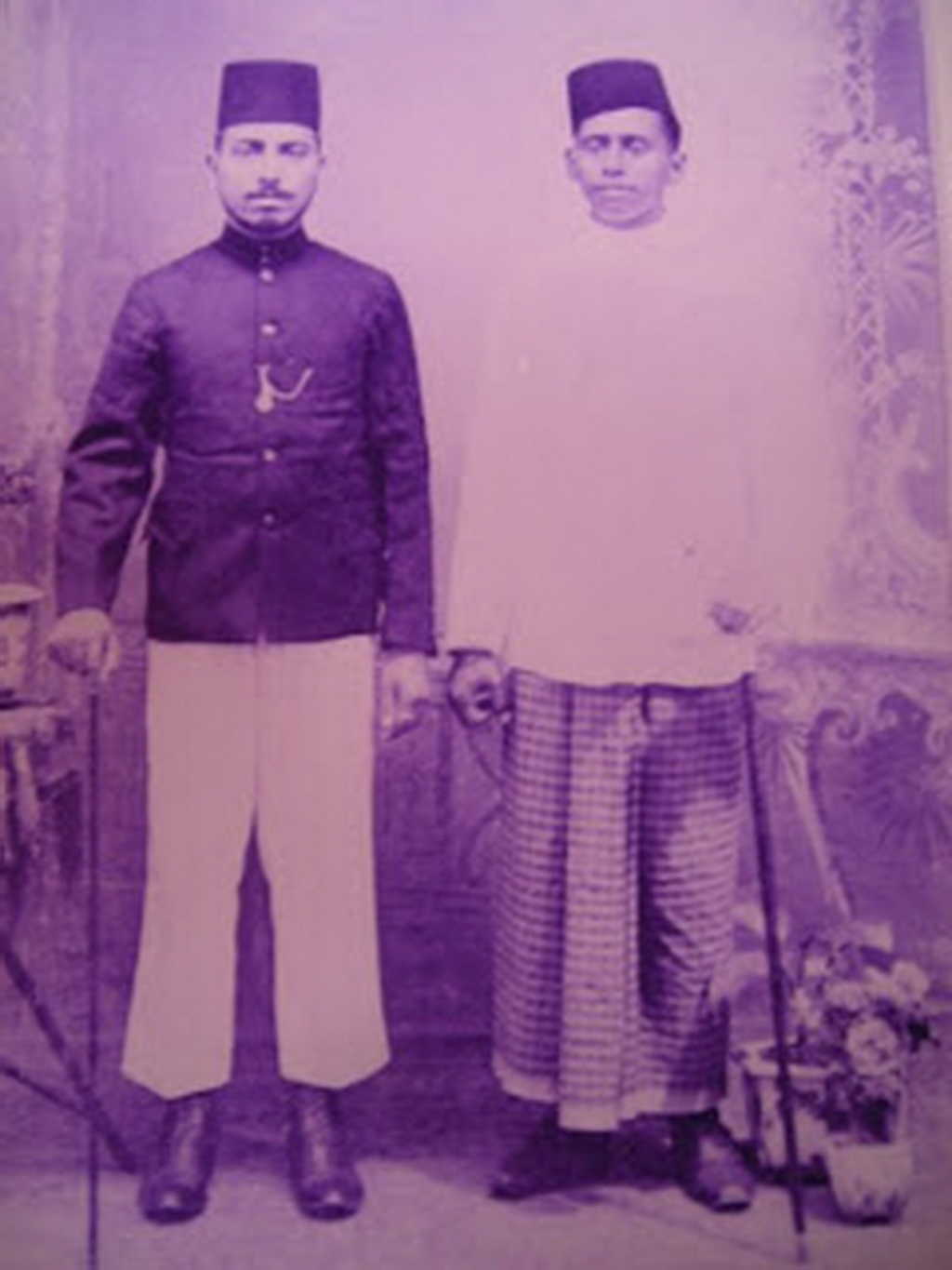 Habib Alwi bin Abdullah bin Alwi bin Syekh AlHabsyi Barabai, Kapten Arab in Borneo.